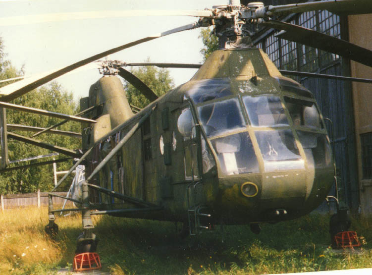 Yakovlev Yak-24 helicopter at Monino museum